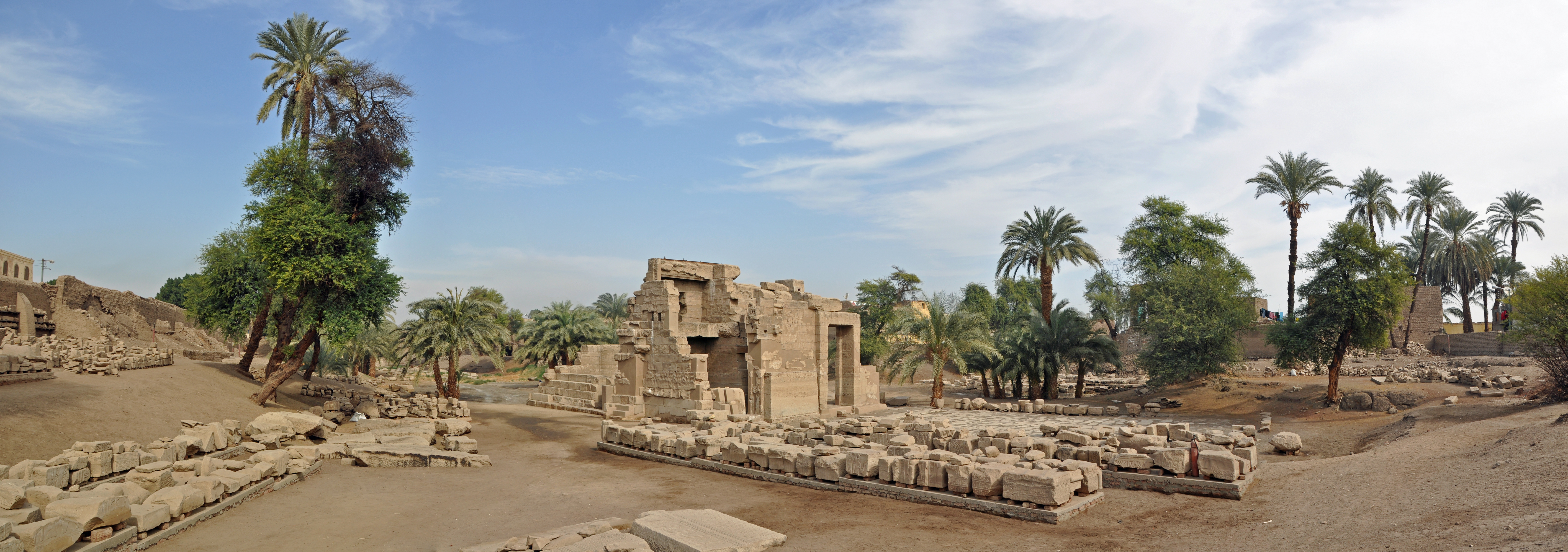 Temple of Tod (Luxor region, Egypt)